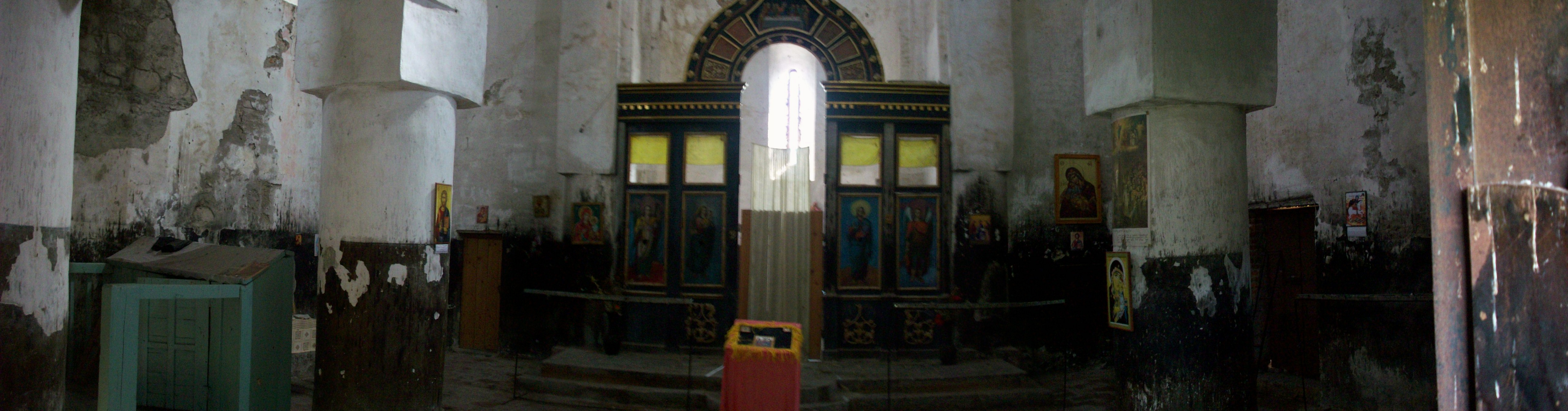 Interior of Zemo Alvani Trinity Church.